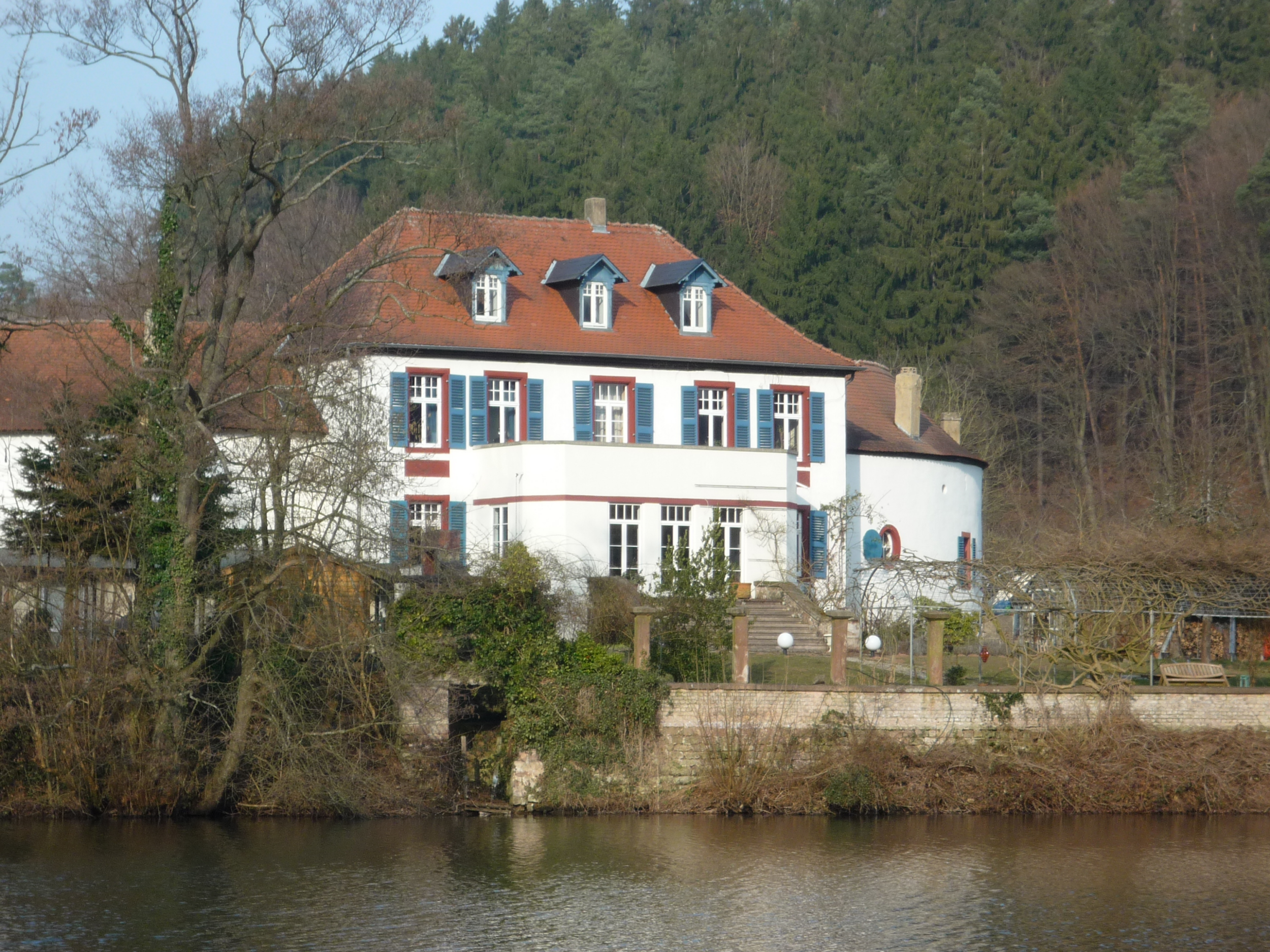 Castle Annahof ("Runder Bau") near Niederwürzbach